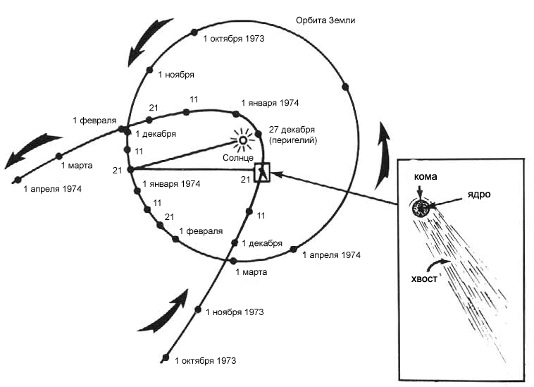 Orbit of Comet Kohoutek, 1973–1974